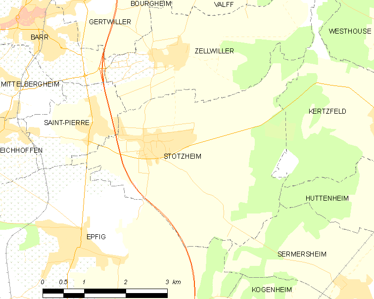 Map of French municipality